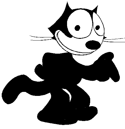 Otto Messmer's little black cat, created for Pat Sullivan's Studio, as drawn by Raoul Barre.